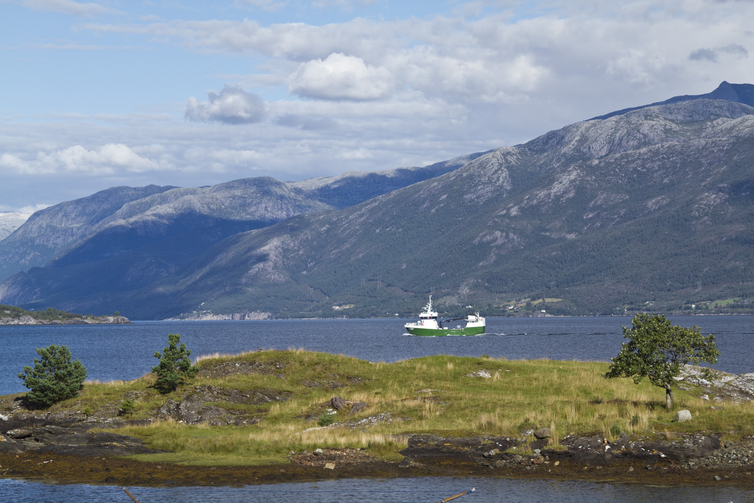 Kvinnheradsfjorden, part of Hardangerfjorden seen from Gjermundshamn